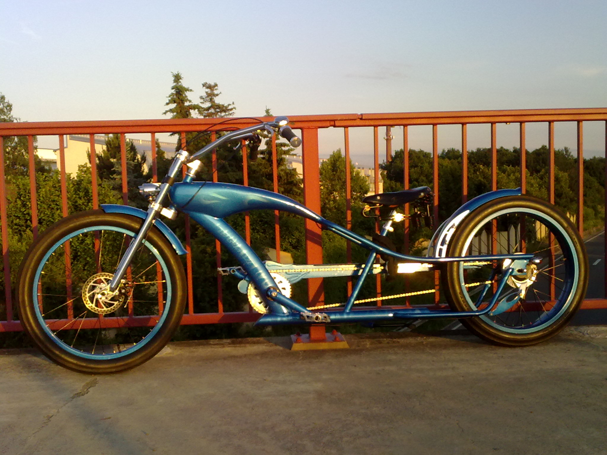 Lowriderbicycle from Phat-Cycles, Model "Superstretch"